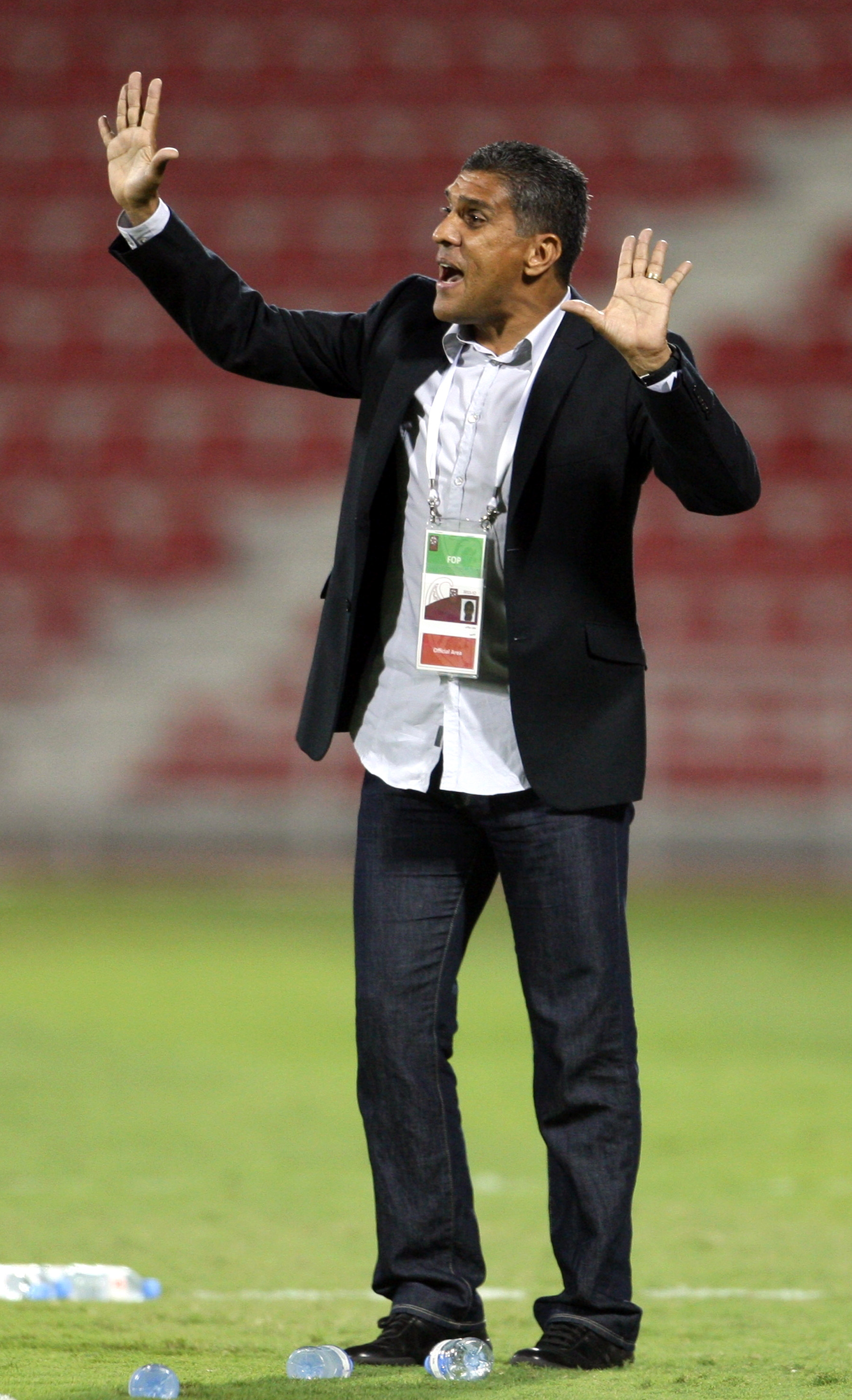 Al Arabi coach Paulo Silas shouts instructions to his players during the Qatar Stars League match. Pic by Mohan